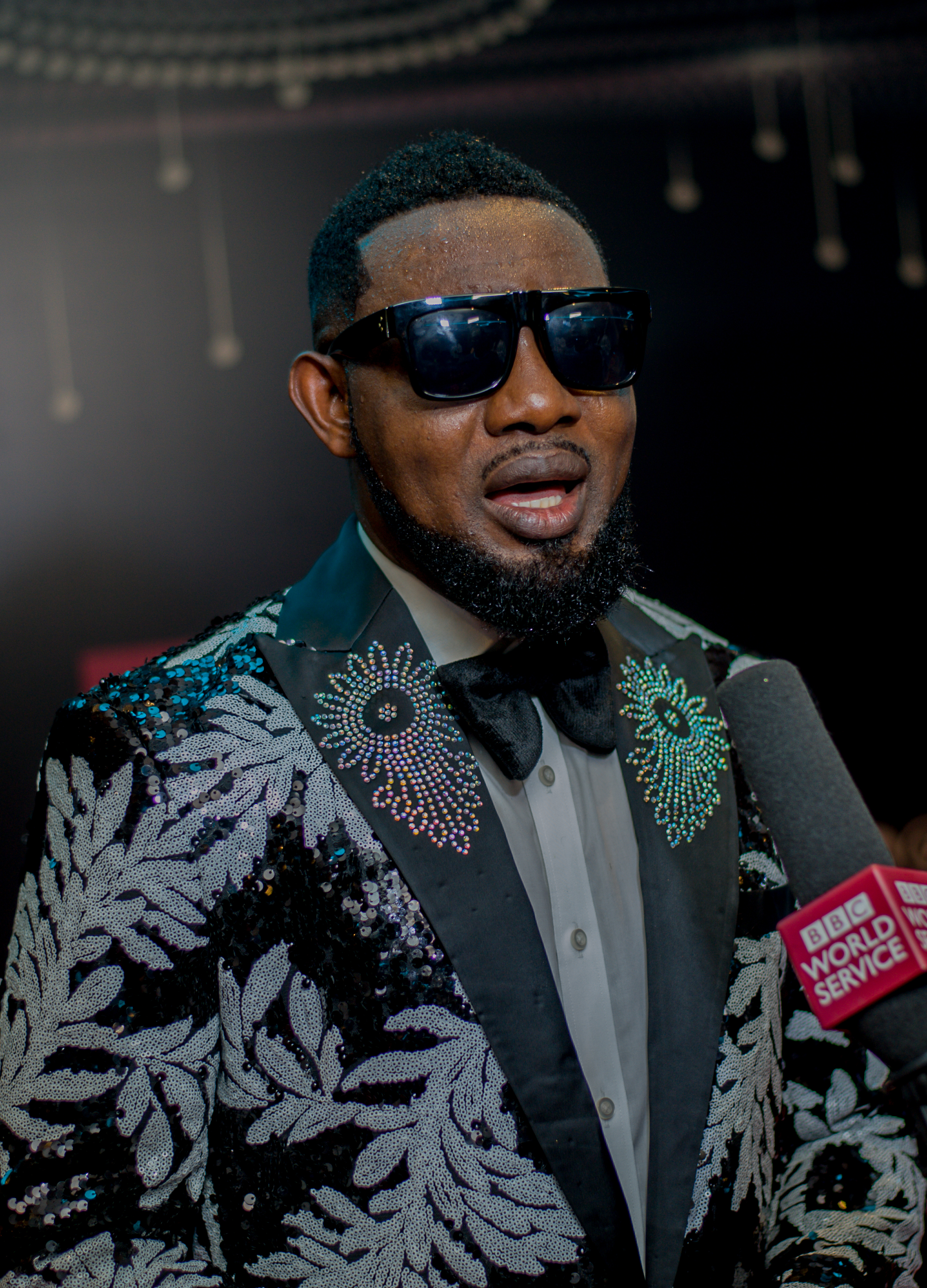 Pictures from AMVCA 2020